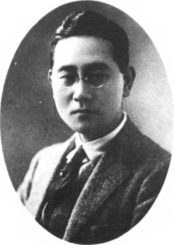 Goto Ichizo